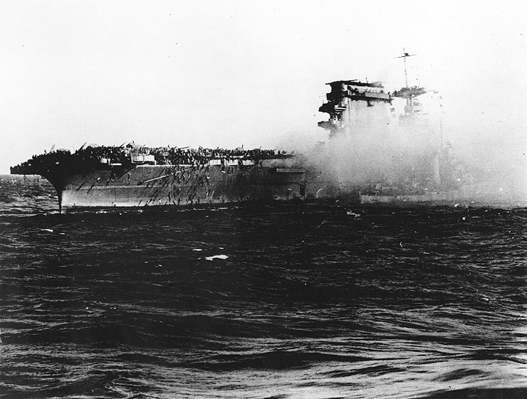 A destroyer is alongside of the U.S. Navy aircraft carrier USS Lexington (CV-2) as she is abandoned during the afternoon of 8 May 1942. Note the crewmen sliding down lines on Lexington's starboard quarter.